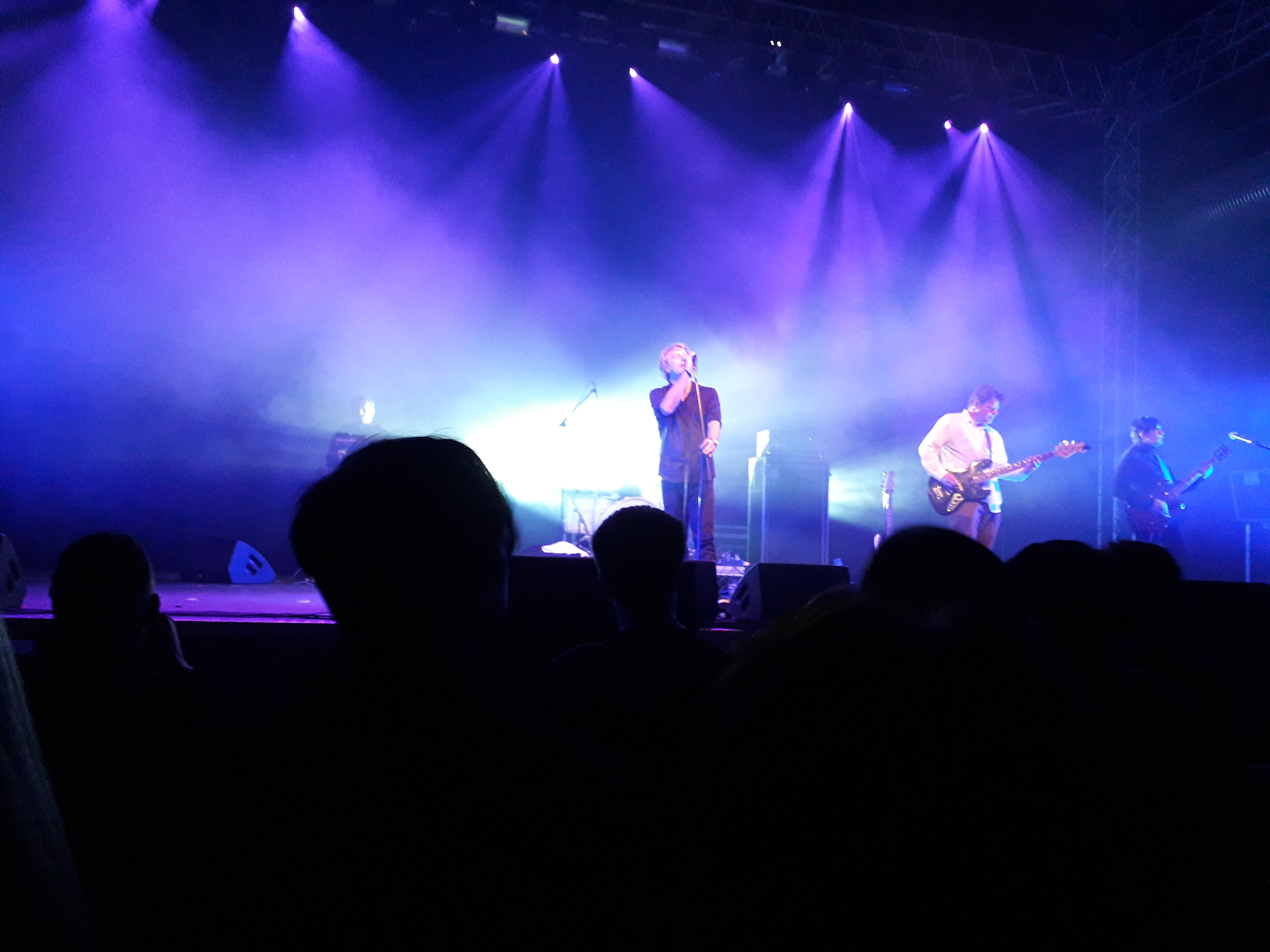 In2TheSound live at the Turbinenhalle, Oberhausen New Waves Day 2019. left to right: Stefan Bonhorst, Mike Dudley (invisible), Carlo van Putten, Carsten Lienke, JoJo Brandt.